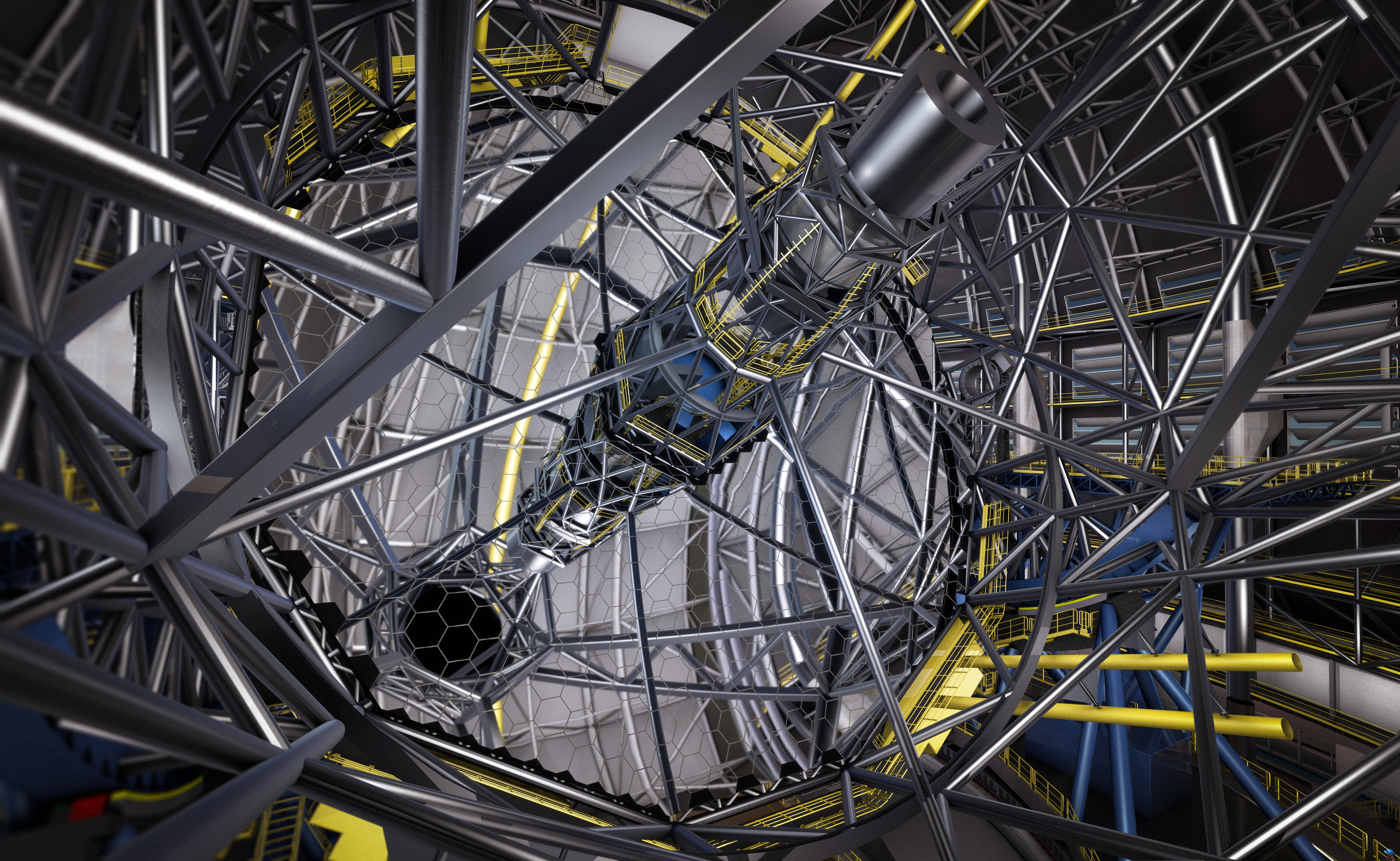 This artist's rendering shows the huge segmented primary mirror of the ESO Extremely Large Telescope (ELT). Contracts for the manufacture of the mirror segments were signed on 30 May 2017 at a ceremony at ESO’s Headquarters near Munich. The German company SCHOTT will produce the blanks of the mirror segments, and the French company Safran Reosc will polish, mount and test the segments. The contract to polish the mirror blanks is the second-largest contract for the ELT construction and the third-largest contract ESO has ever awarded.